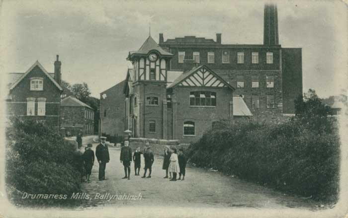 Photo of Drumaness in approx 1910